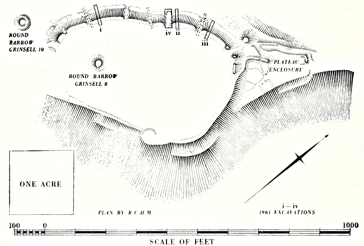 Diagram of Knap Hill archaeological site, drawn by the Royal Commission on Historical Monuments, showing the Neolithic causewayed enclosure at left, two barrows, and the Romano-British enclosure at right.